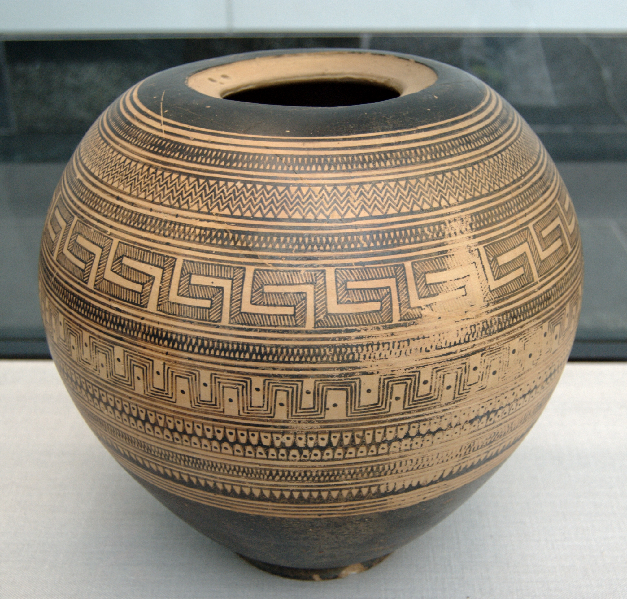 Great pyxis. Holes next to the opening, in order to tie the cover and carry the jug? Rythmic decoration, ornamentation zones are always separated by three tire lines. Attica, ca. 850 BC.